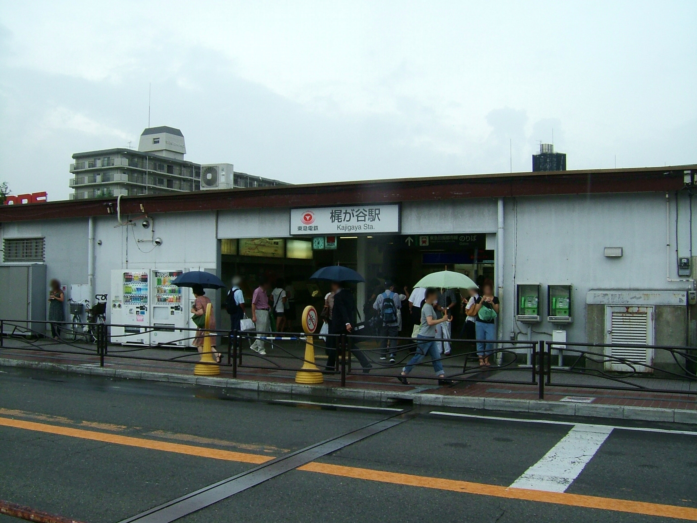 Kajigaya Station on the Tokyu Den-en-toshi Line